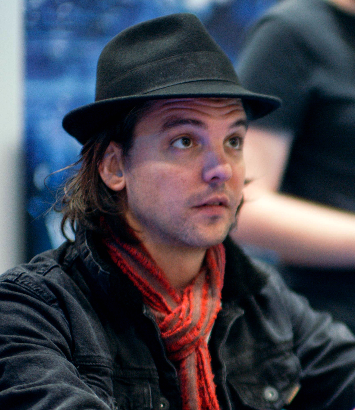 Andrew Lee Potts at London Comic Con, October 2016